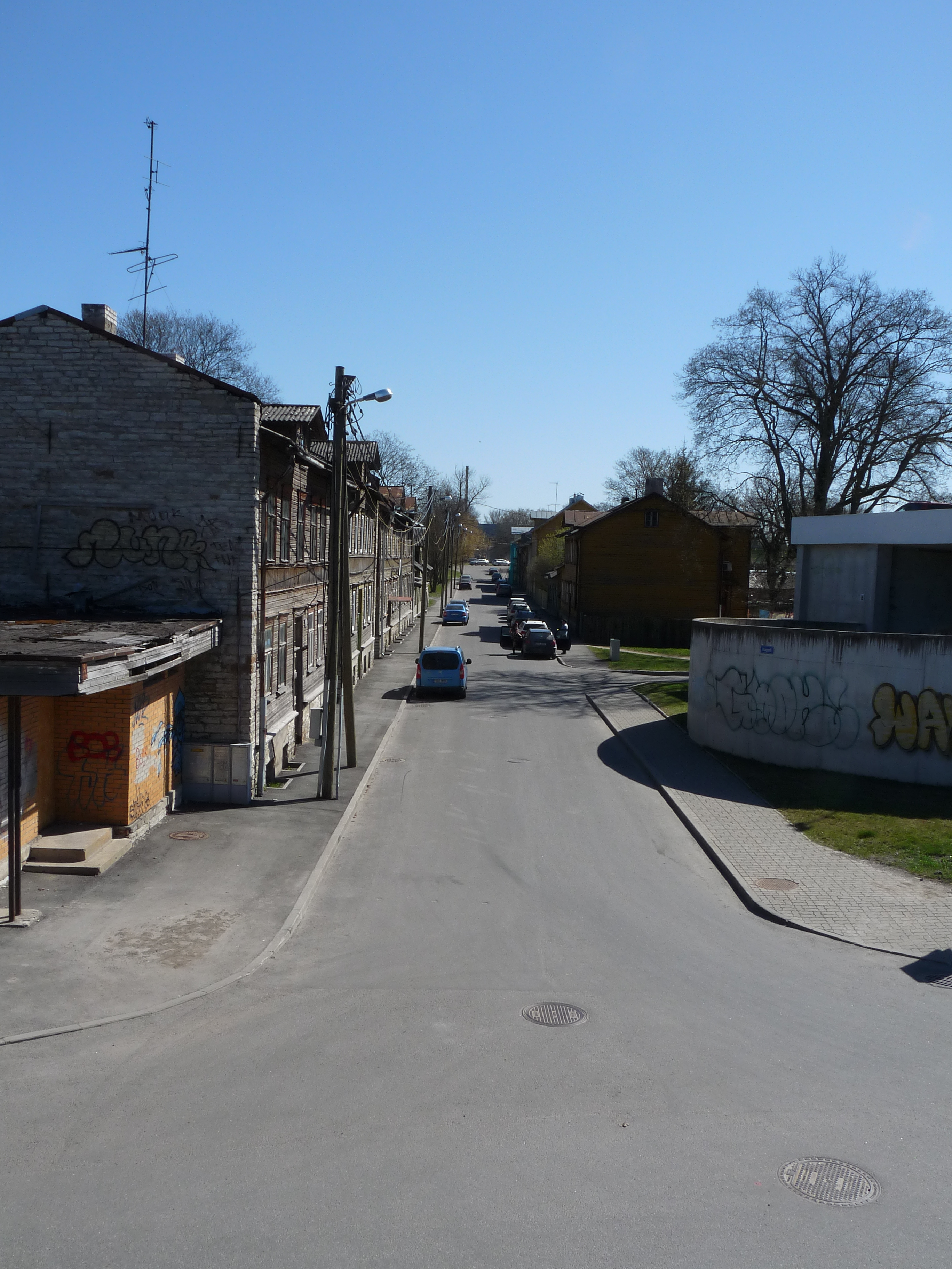 Hagudi street in Tallinn, Estonia